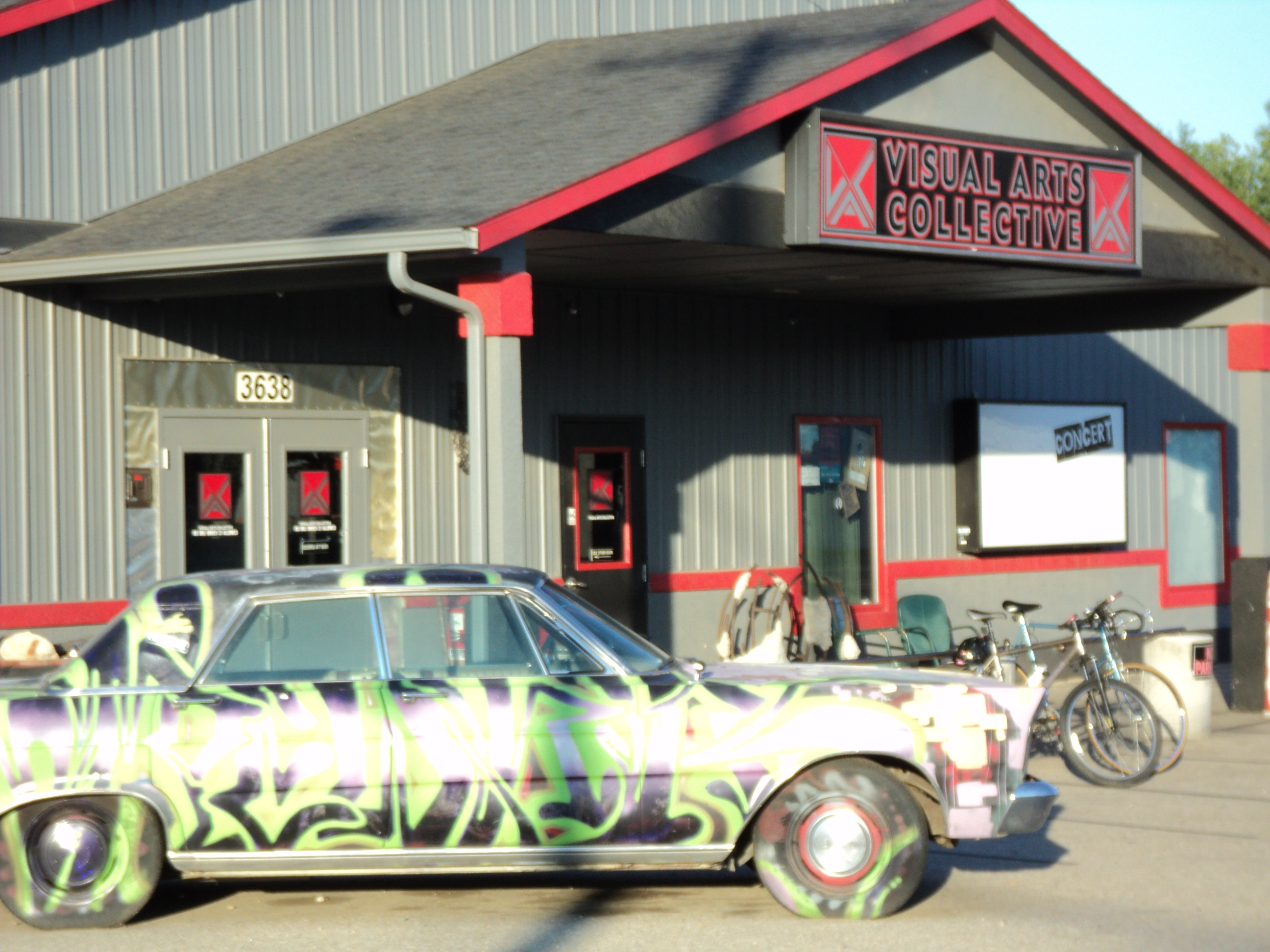 The Visual Arts Collective in Garden City, Idaho.